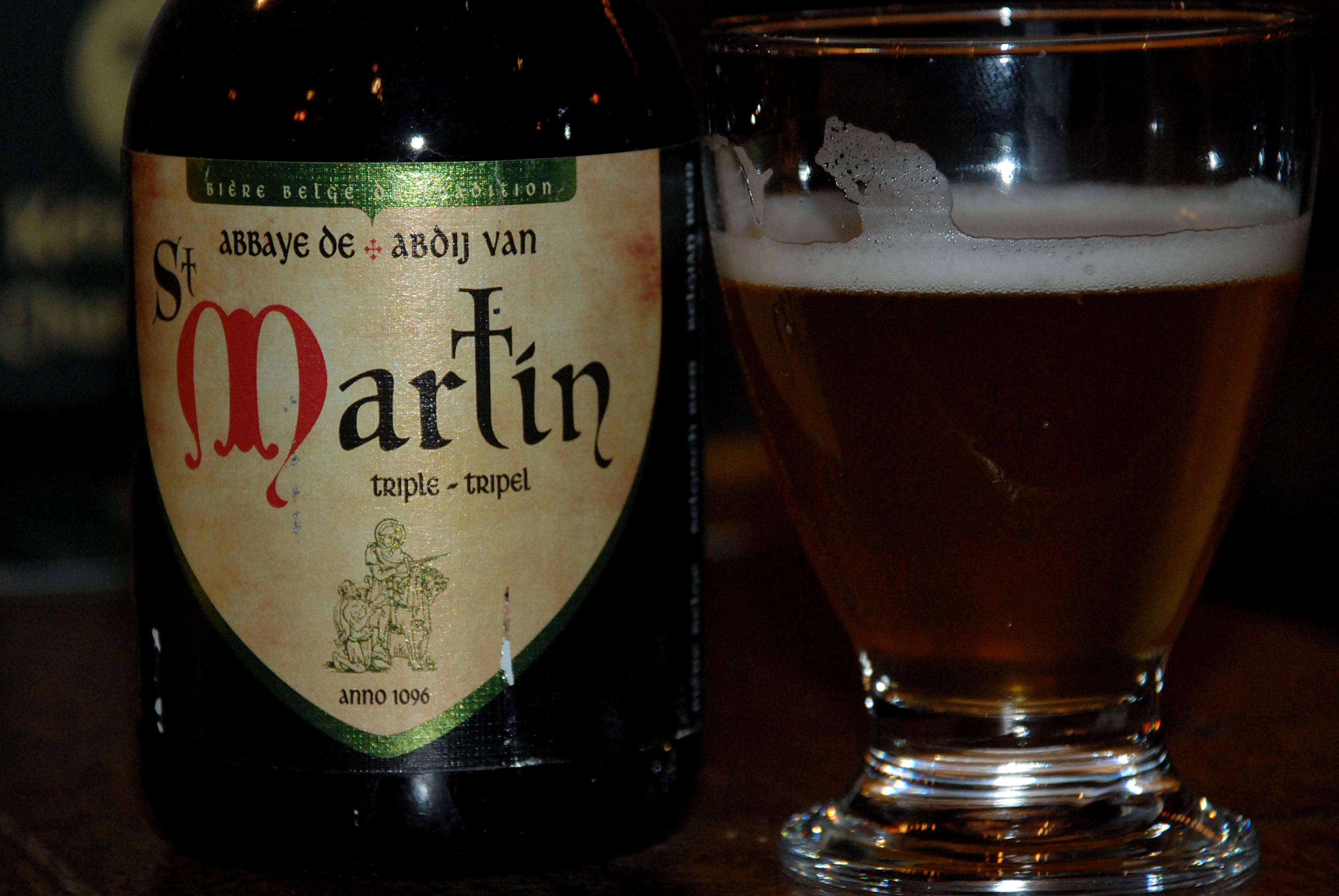 Saint-Martin Triple, Belgian Abbey beer